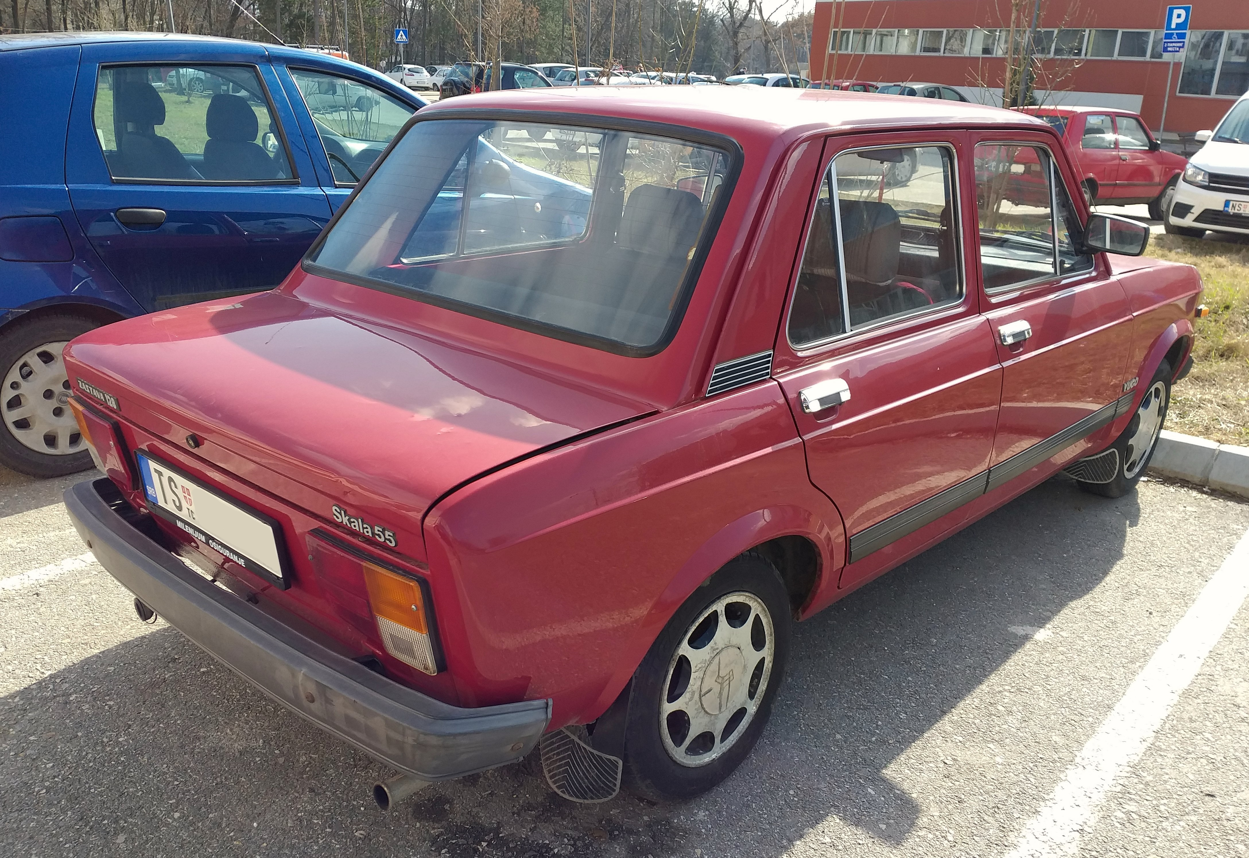 Zastava 128 Skala 55